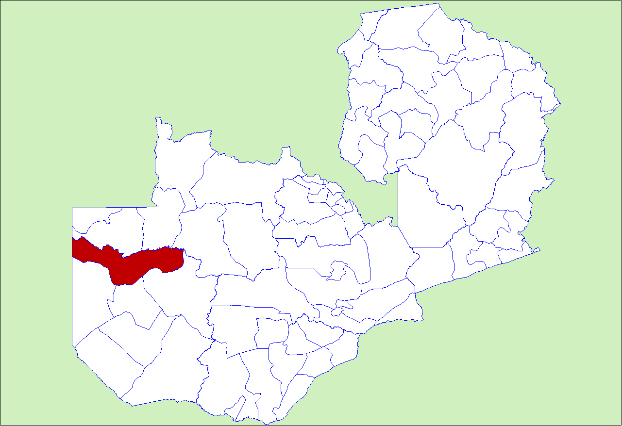 District locator in Zambia